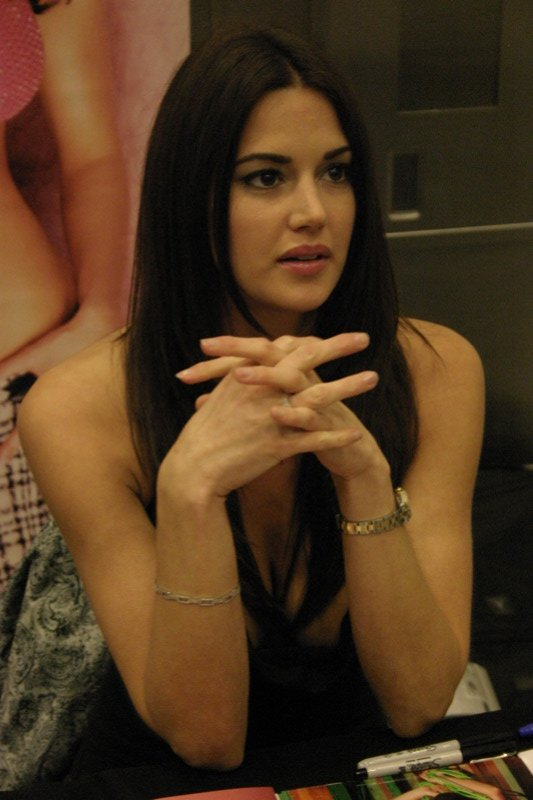 Model Tiffany Taylor at Wondercon 2006